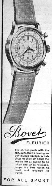 Where is the evidence that the creator of a 64-year-old advertisement died 100 years ago? This image is from a newspaper published in the U.S. in 1944. This is public domain because it was published before 1978 with no copyright notice. In the alternative, it was published before 1964 and the copyright was not renewed. Licensing Removed from the following pages: Bovet Fleurier --OrphanBot (talk) 05:27, 15 July 2008 (UTC)